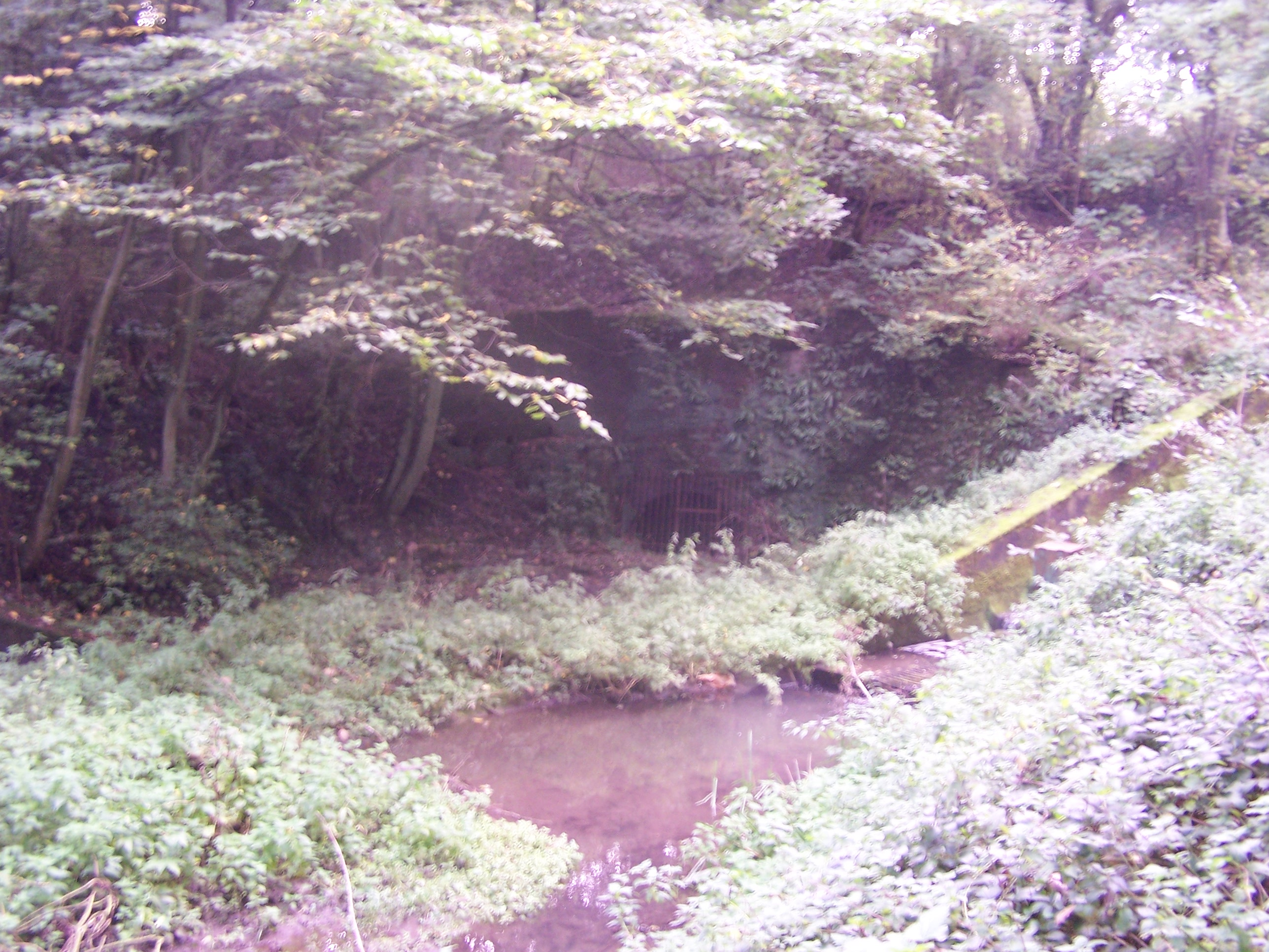 Author: Tina Cordon, Source: Own Picture Tina Cordon 16:59, 14 October 2006 (UTC)